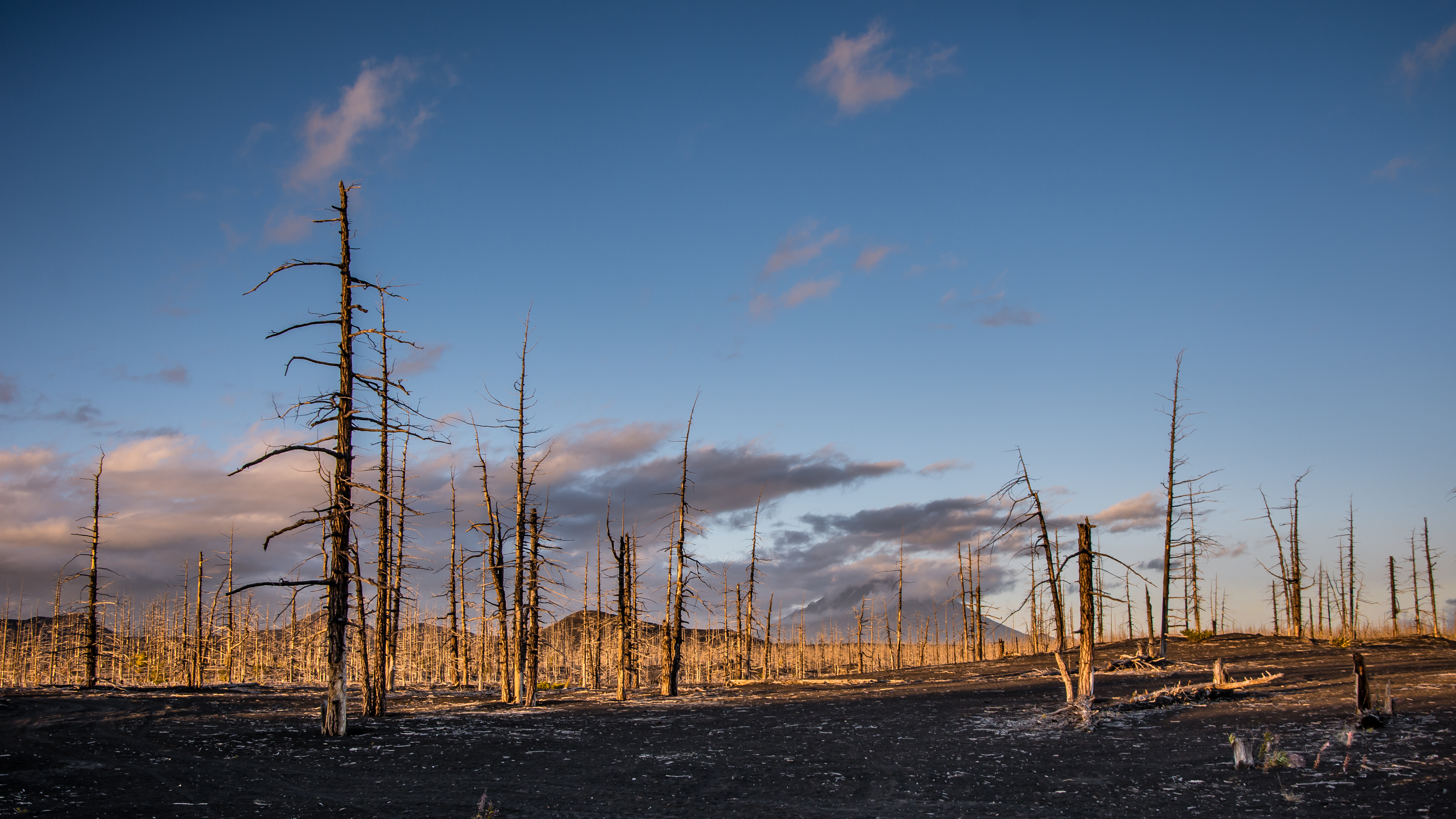 Dead forest near volcano Tolbachik, Kamchatka, Russia. The trees in this forest were killed by a hot ash cloud originating from the eruption of volcano Tolbachik in 1975. The picture was taken in an evening in September 2014, shortly before sunset.